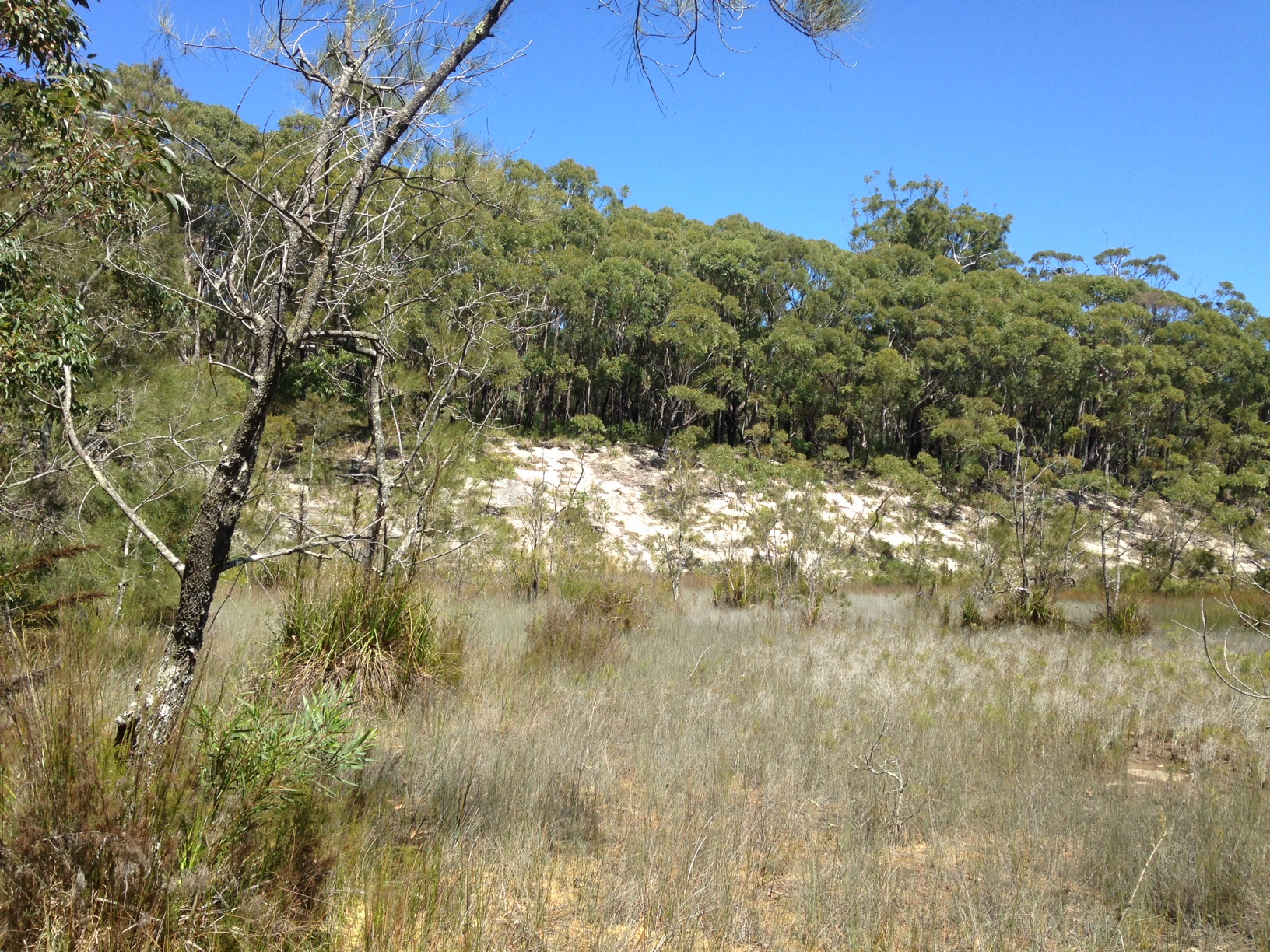 View of the east end of the Jervis Bay nuclear power plant site